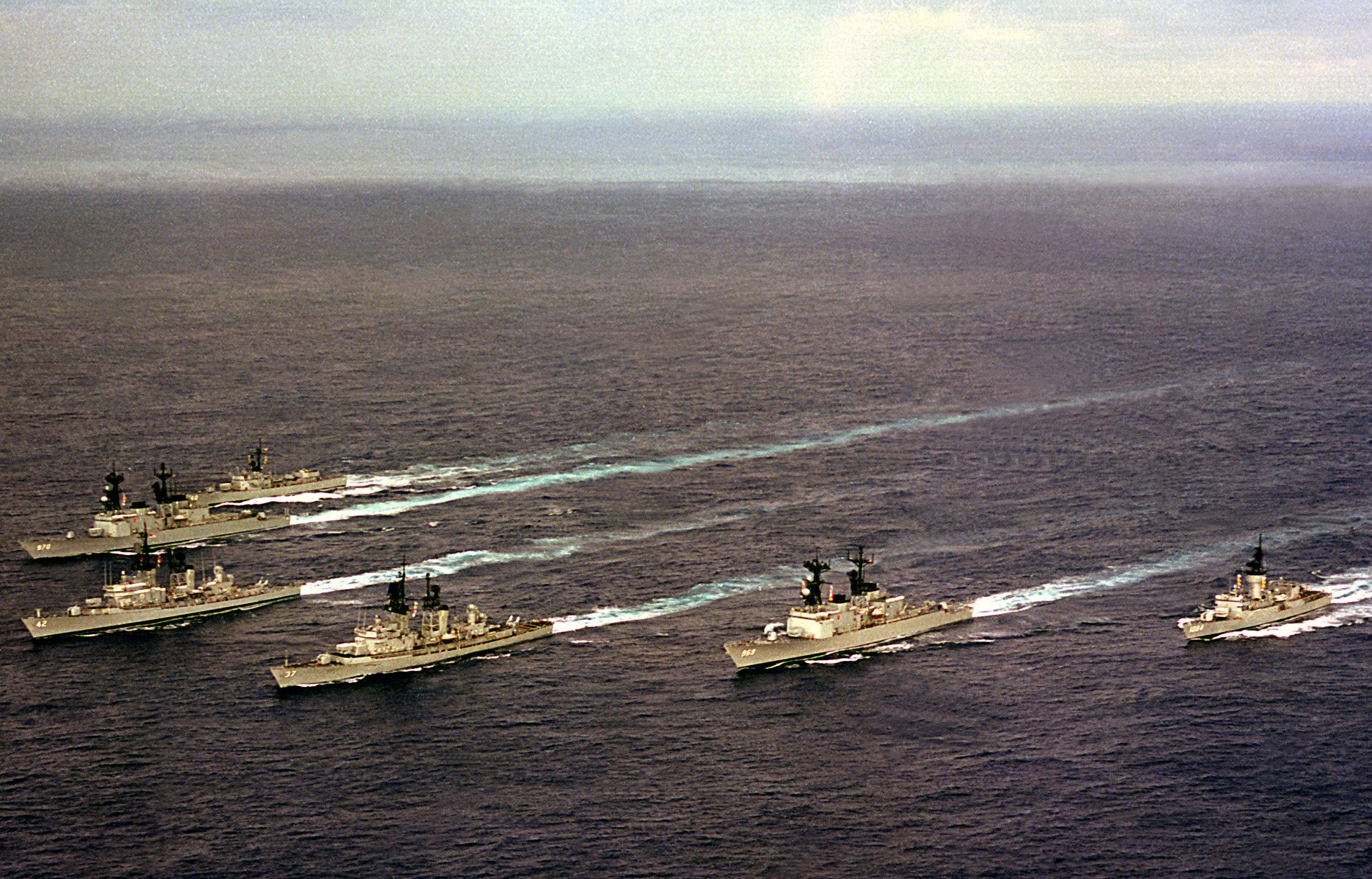 An aerial port bow view of six U.S. Navy ships in the USS Independence (CV-62) battle group as they head home from deployment in the Mediterranean Sea. The ships are, clockwise from the right: USS McCandless (FF-1084), USS Peterson (DD-969), USS Farragut (DDG-37), USS Mahan (DDG-42), USS Caron (DD-970) and USS Garcia (FF-1040).